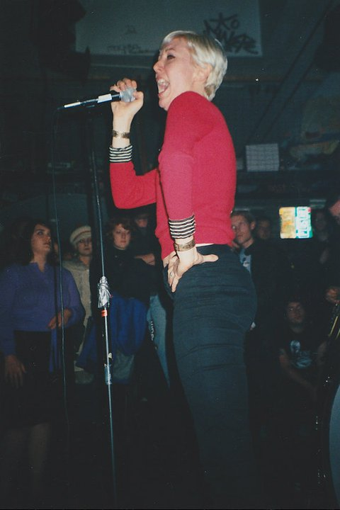 Katrina Ford of Love Life, now of Celebration, performing with Love Life in the early 2000s in Olympia, Washington.